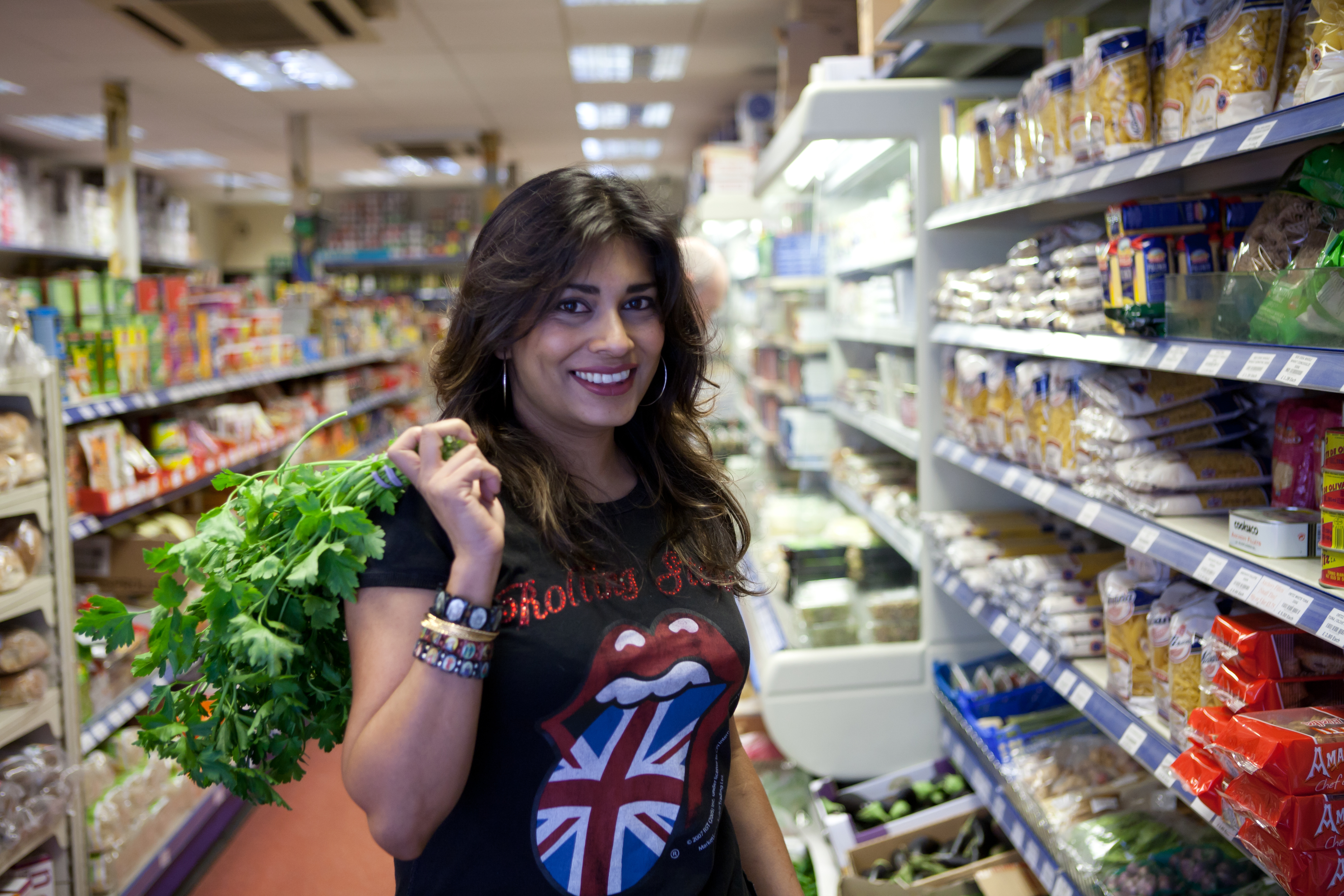 Nisha Katona sourcing supplies for Mowgli Street Food recipes. She is holding coriander.